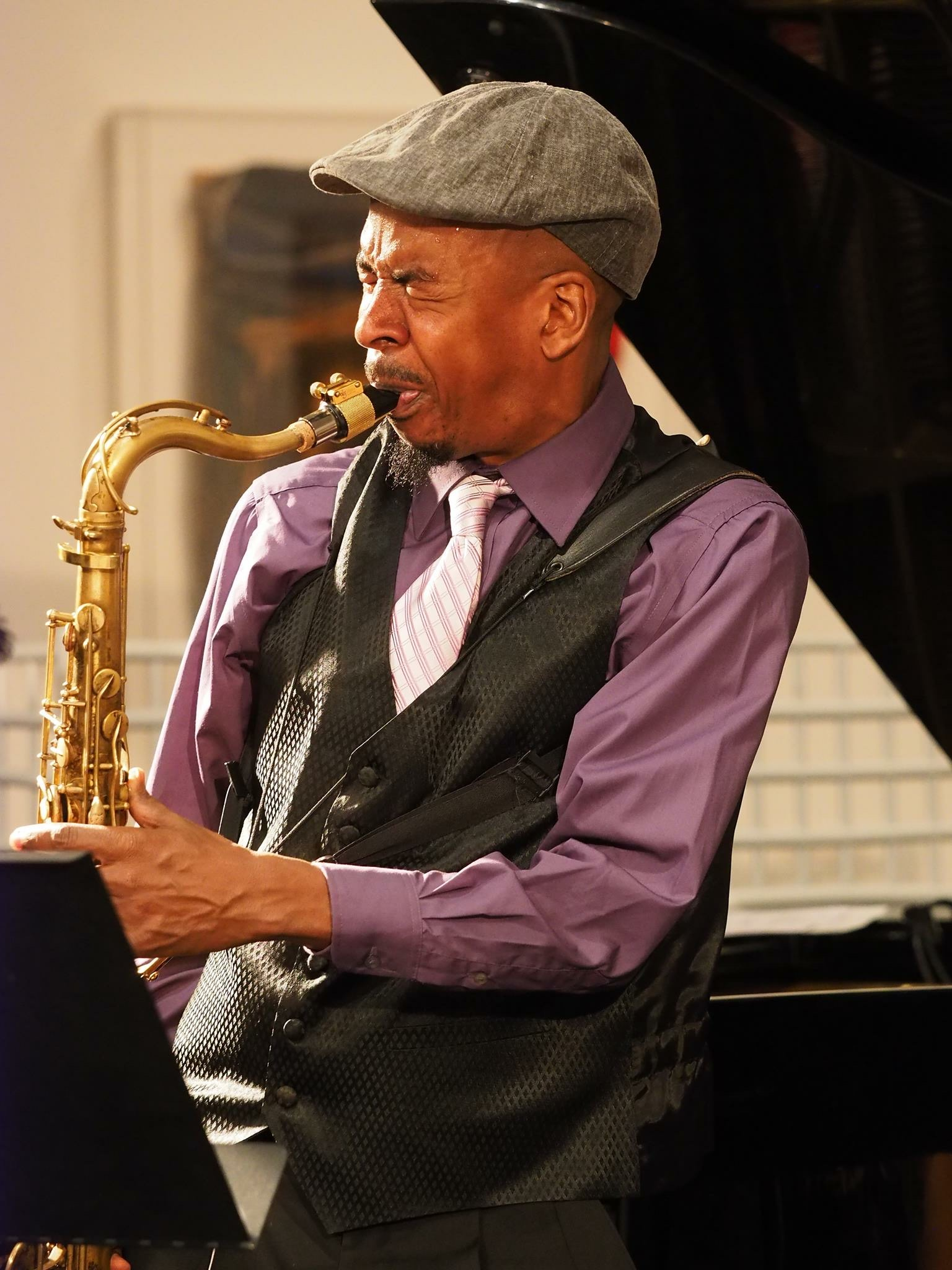 Image of Gregory Tardy playing saxophone at the Jerusalem Jazz Festival.